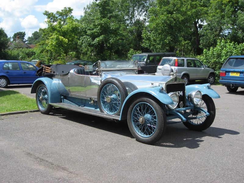 Edwardian Sporting Lanchester 40 HP circa 1914, sole survivor of a limited number made. Found dismantled in a remote part of South Australia in the 1970's. Engine & gearbox was set up to drive a sawbench. As located was mechaniclally complete apart from the gearbox which was smashed up for the alloy casing by a scrap dealer. Returned to the UK about 15 years ago & I understand that the restorer went to some considerable lengths to reproduce the gearbox accurately.